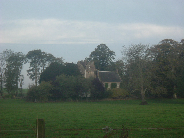 Balbegno Castle Seen from FEttercairn - Edzell road.